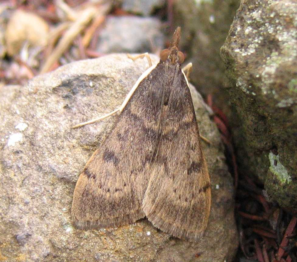 Uresiphita gilvata (Fabricius, 1794), Lepidoptera, Pyraloidea, Tenerife, Teno mountain ranges, about 700 m above sea level